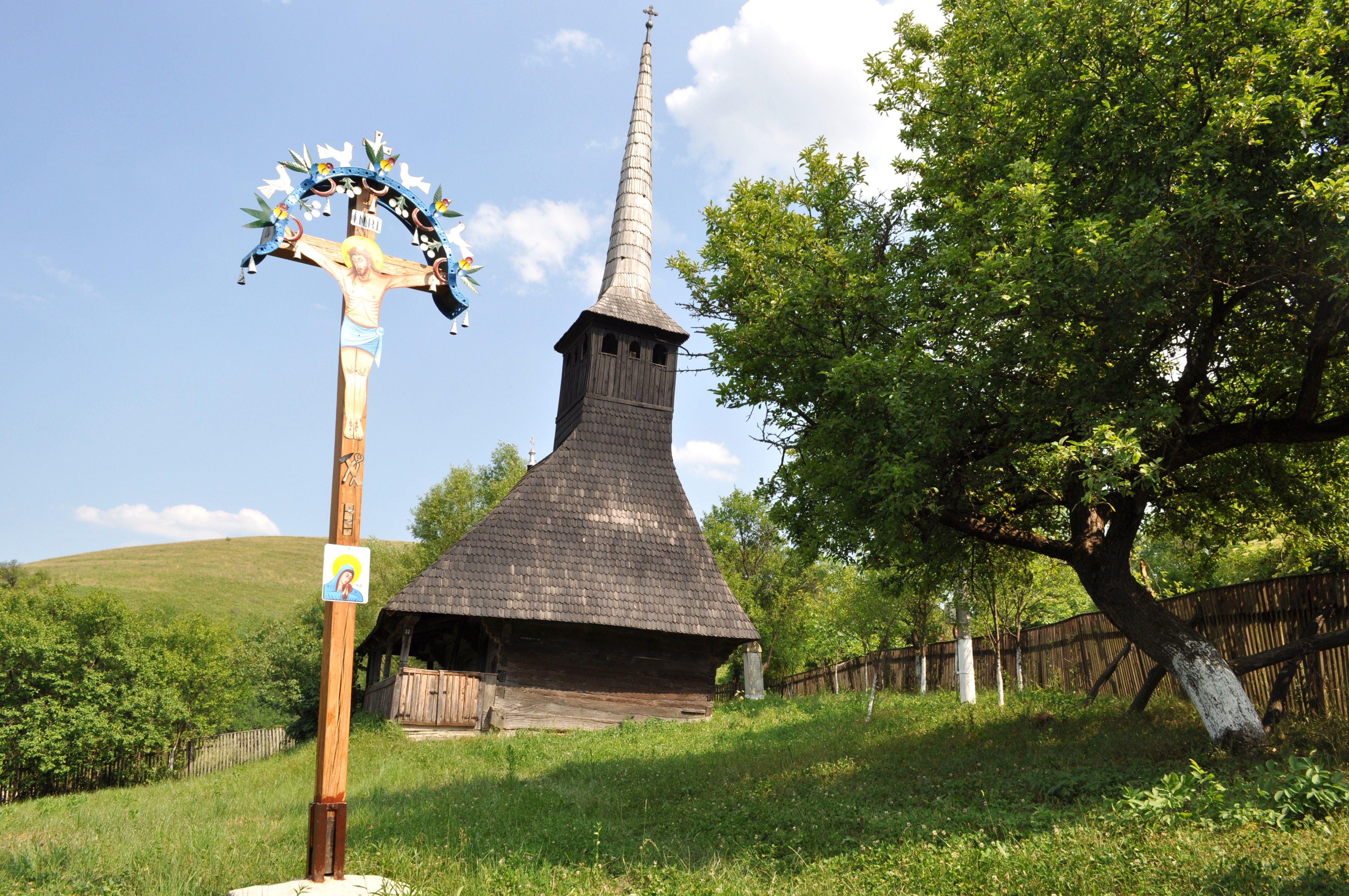 Wooden church in Cremenea, Cluj countyRomână: Biserica de lemn din Cremenea, județul Cluj